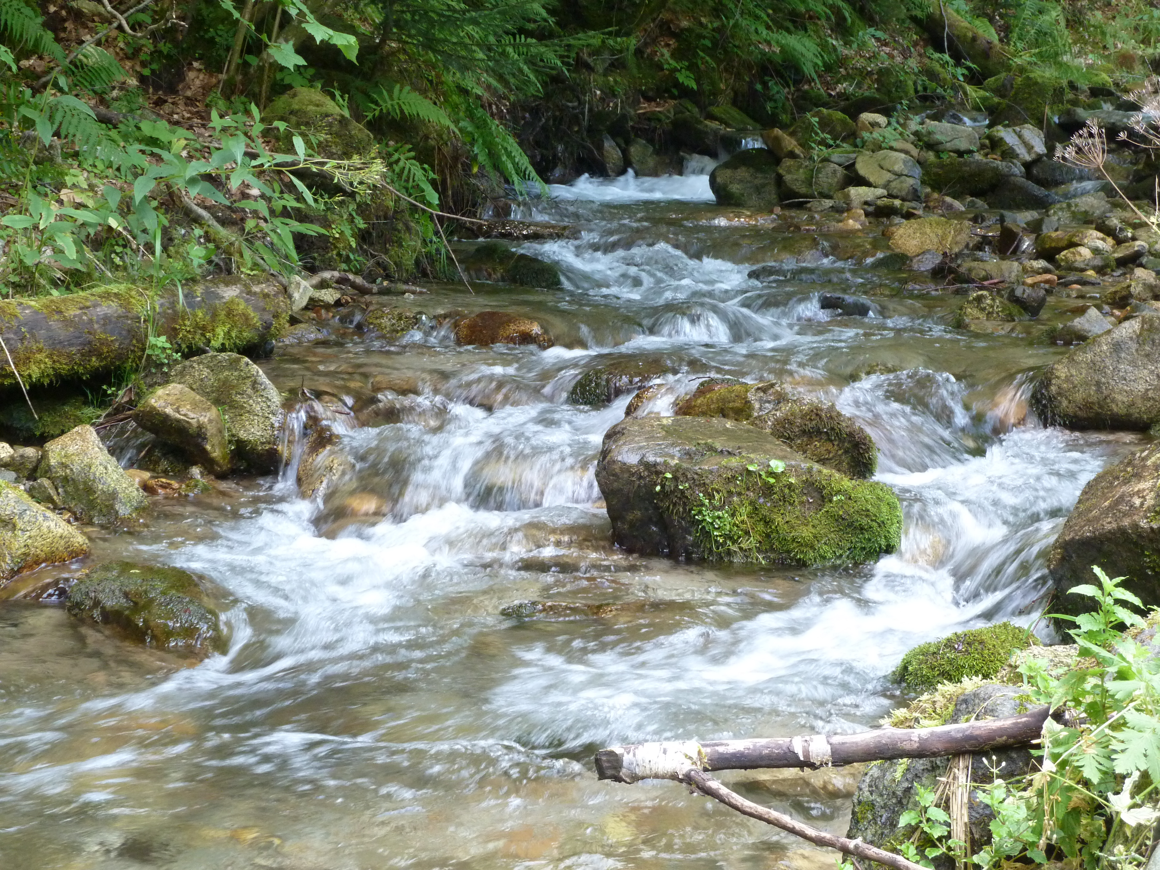 Meža River in its upper course